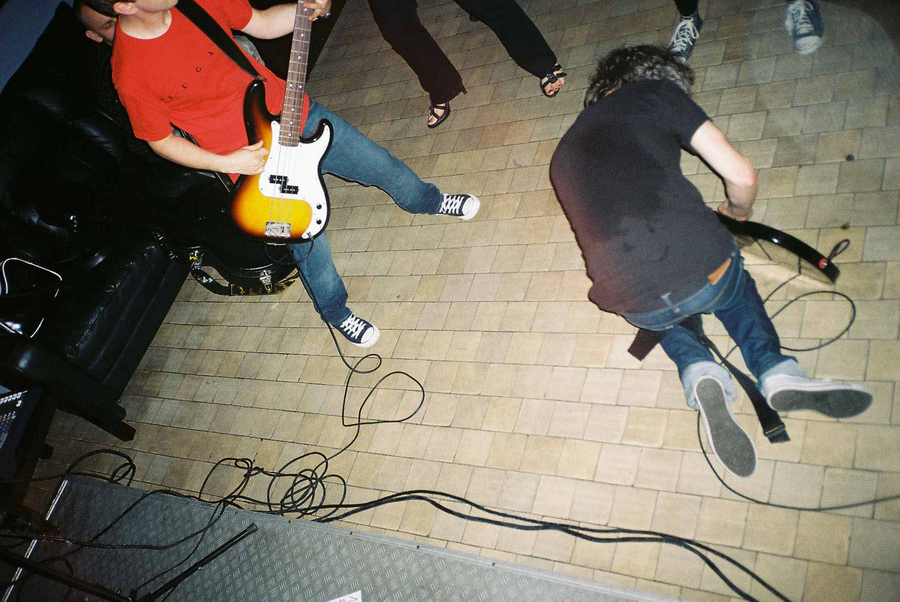 Koncert Plum